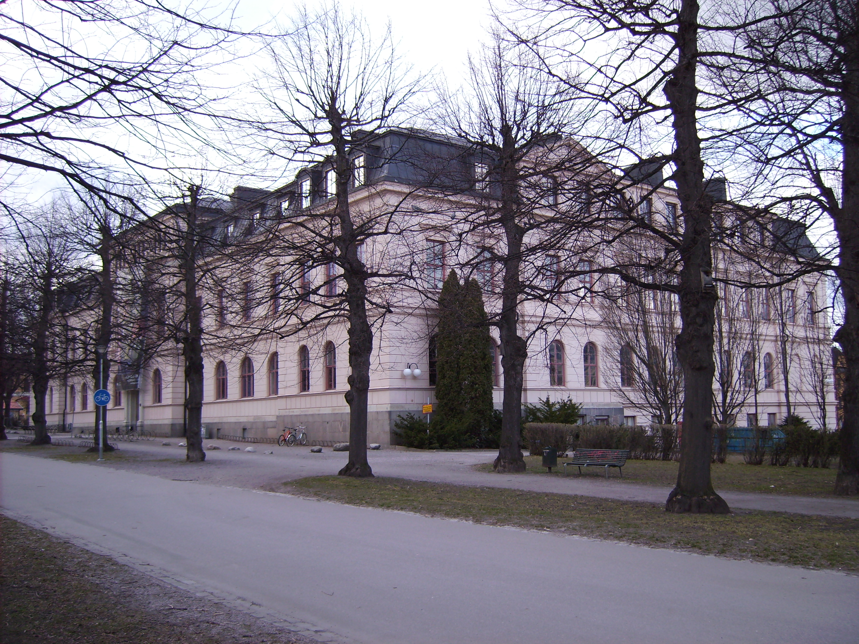 Photo by Harri Blomberg.